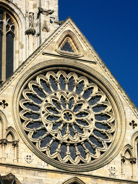 The Rose Window, York Minister In the South transept is the Rose Window commemorating the end of The Wars of The Roses and dating from around 1500. A fire in 1984 destroyed the roof in the South transept and the restoration work was completed in 1988.